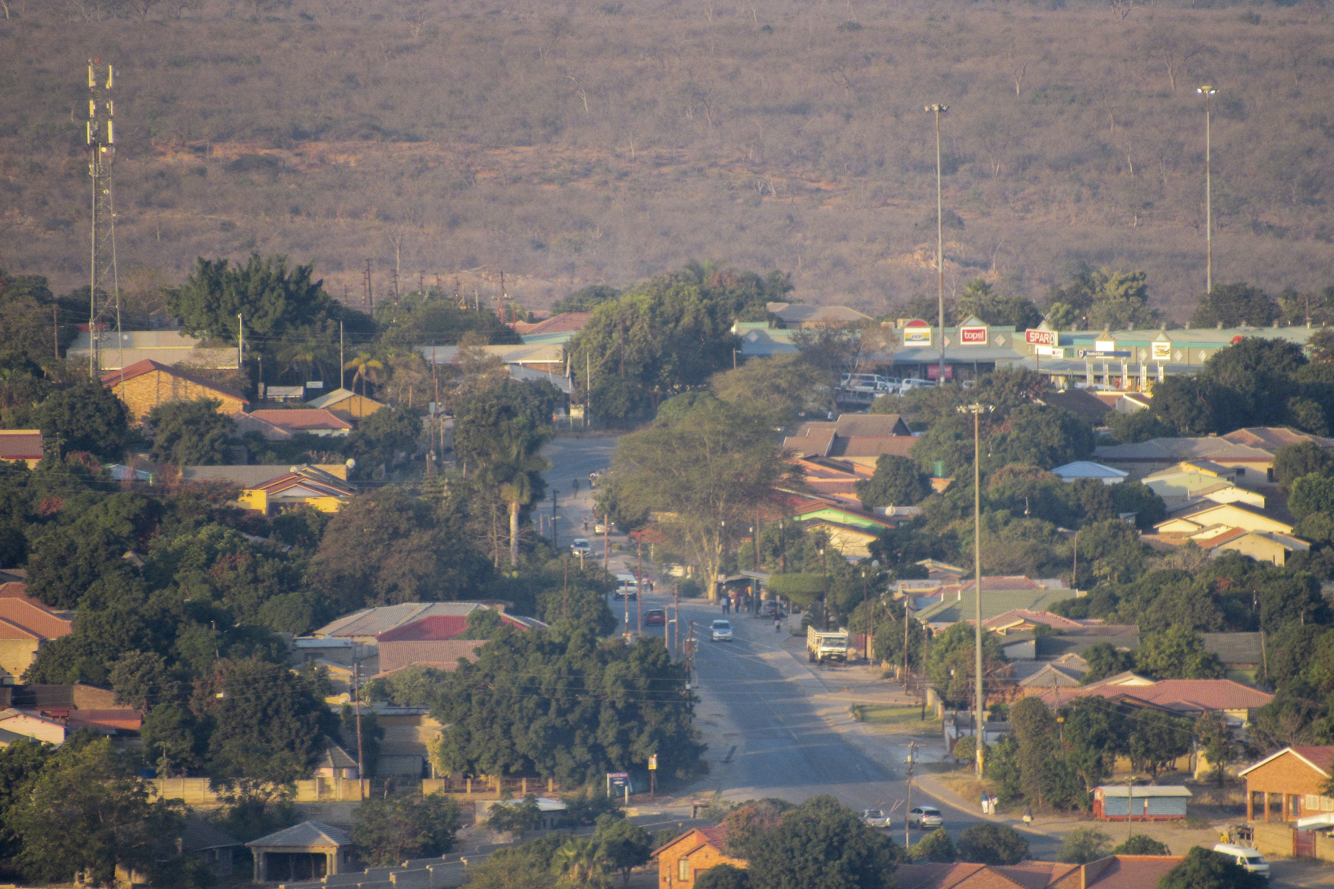 Matsulu-A, Madiba Drive (Road) and the Matsulu Shopping Complex. The Kruger National Park on the background.